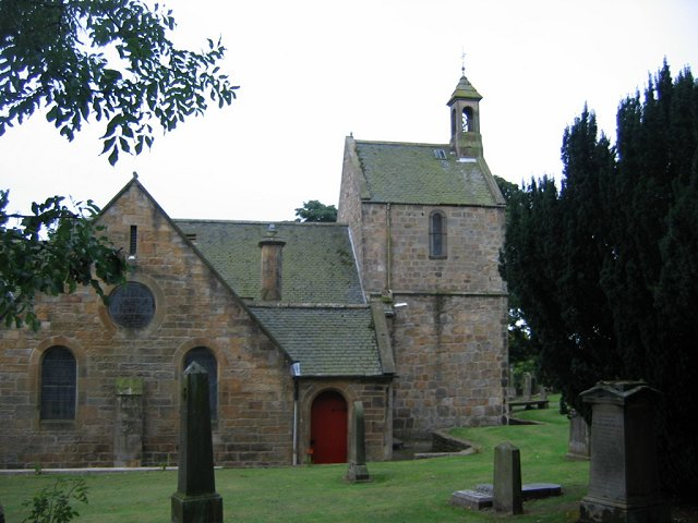 Strathbrock Kirk, on the north edge of Uphall